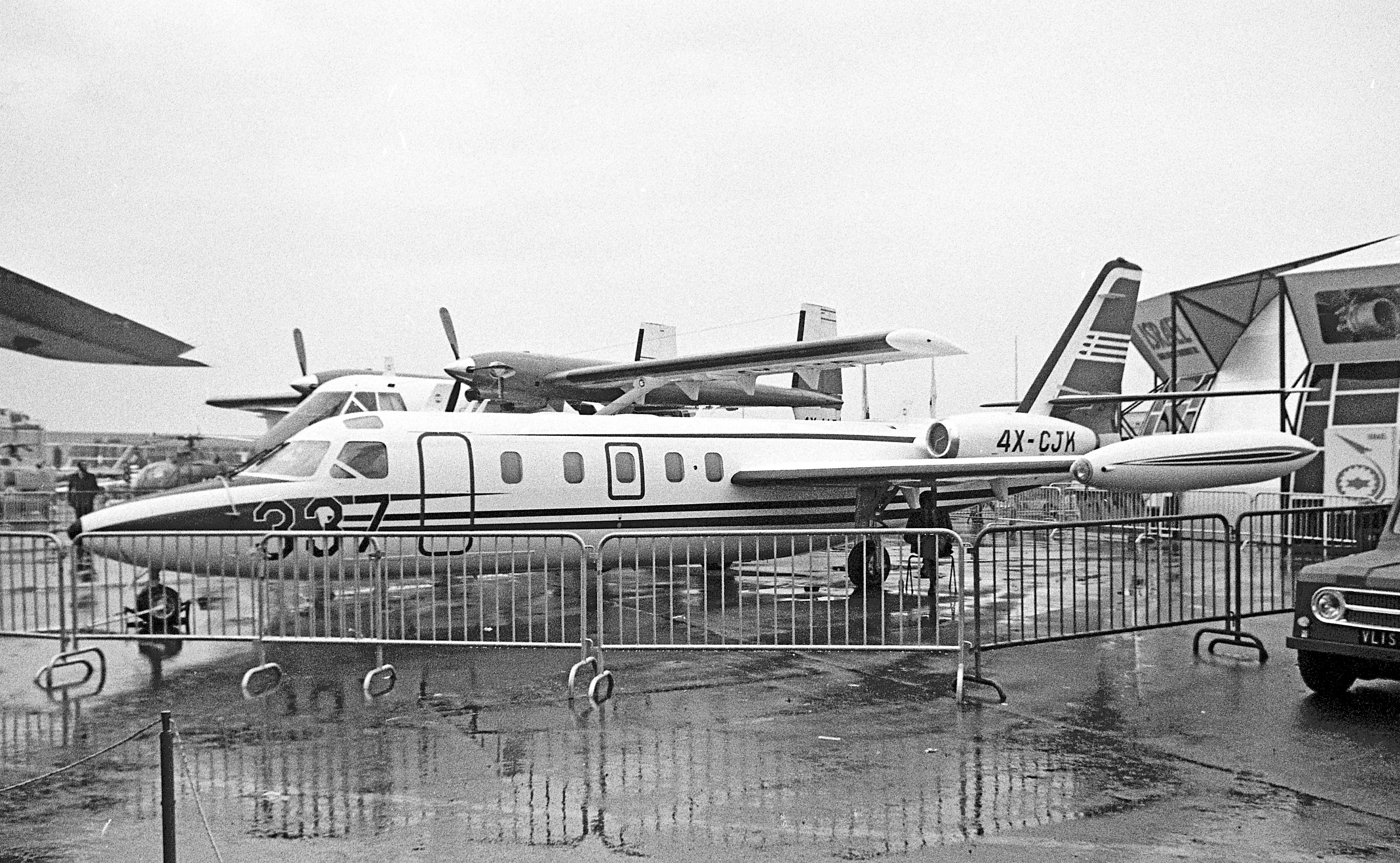 4X-CJK Israel Aircraft Industries-1123 Westwind, IAIat Paris Le Bourget Airport Show